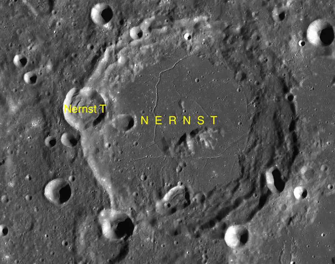 Part of the chart LAC-36 used for the presentation